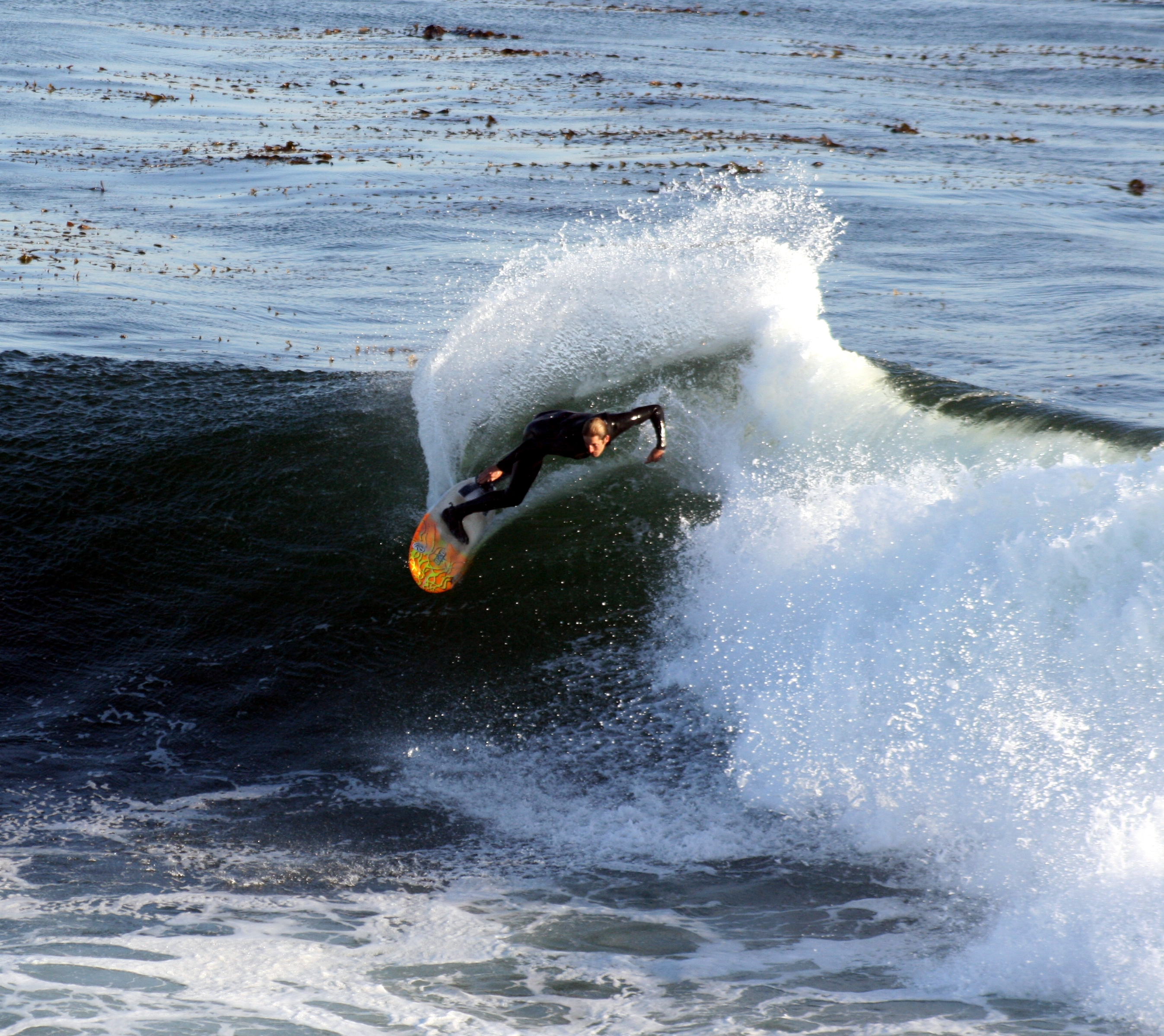 A surfer in Santa Cruz, California